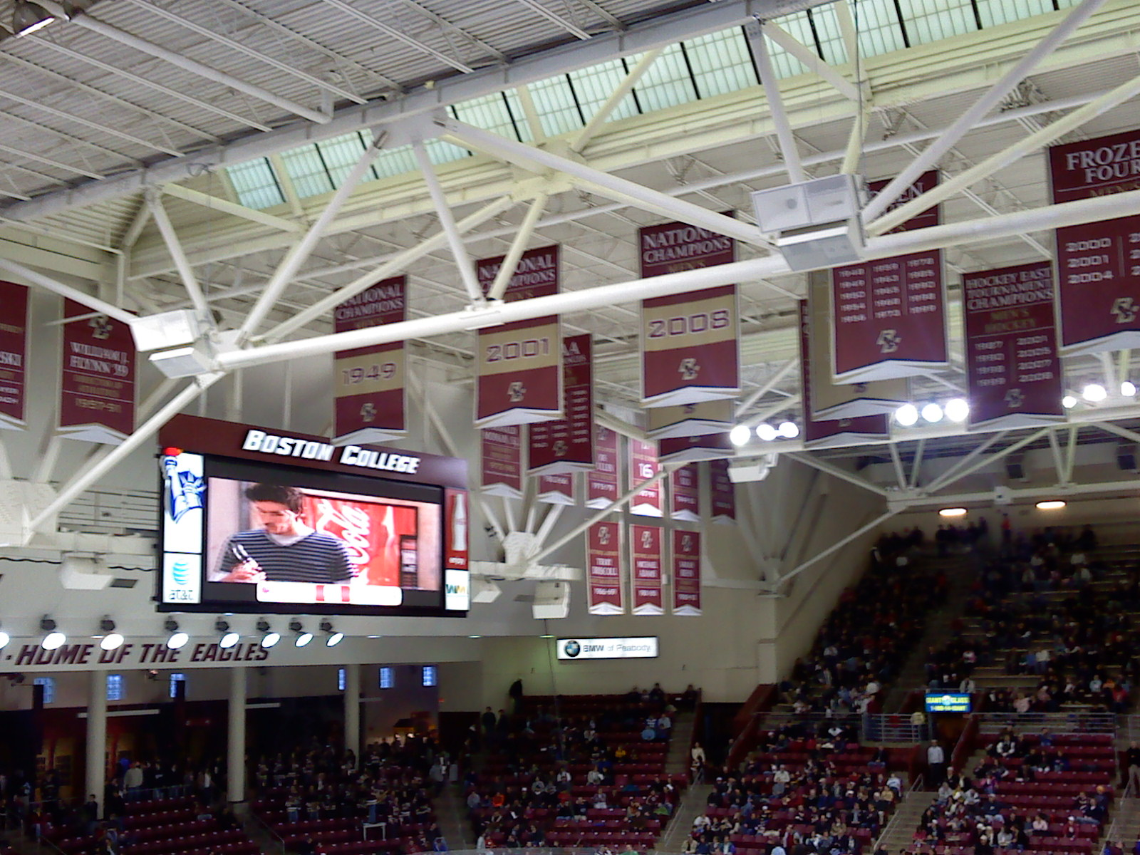 Boston College's 1949, 2001, and 2008 ice hockey national championship banners during the 2009-2010 season.